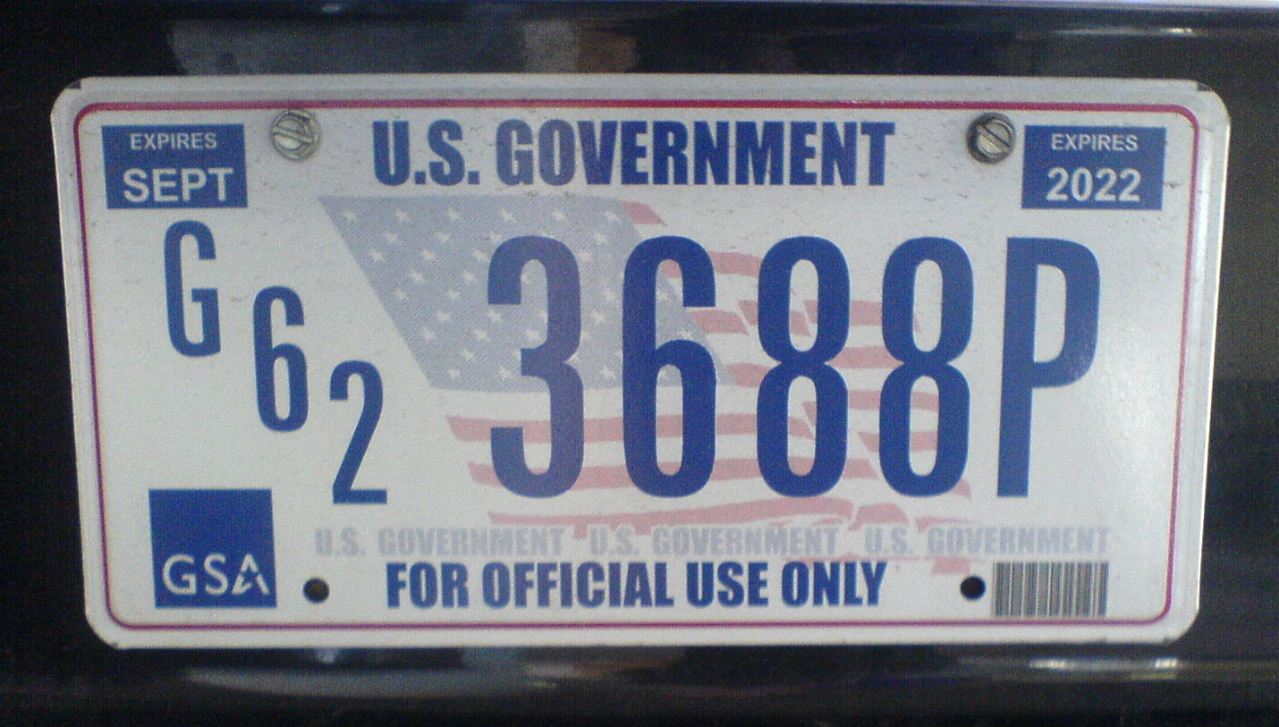 Newest GSA license plates (U.S. federal government)